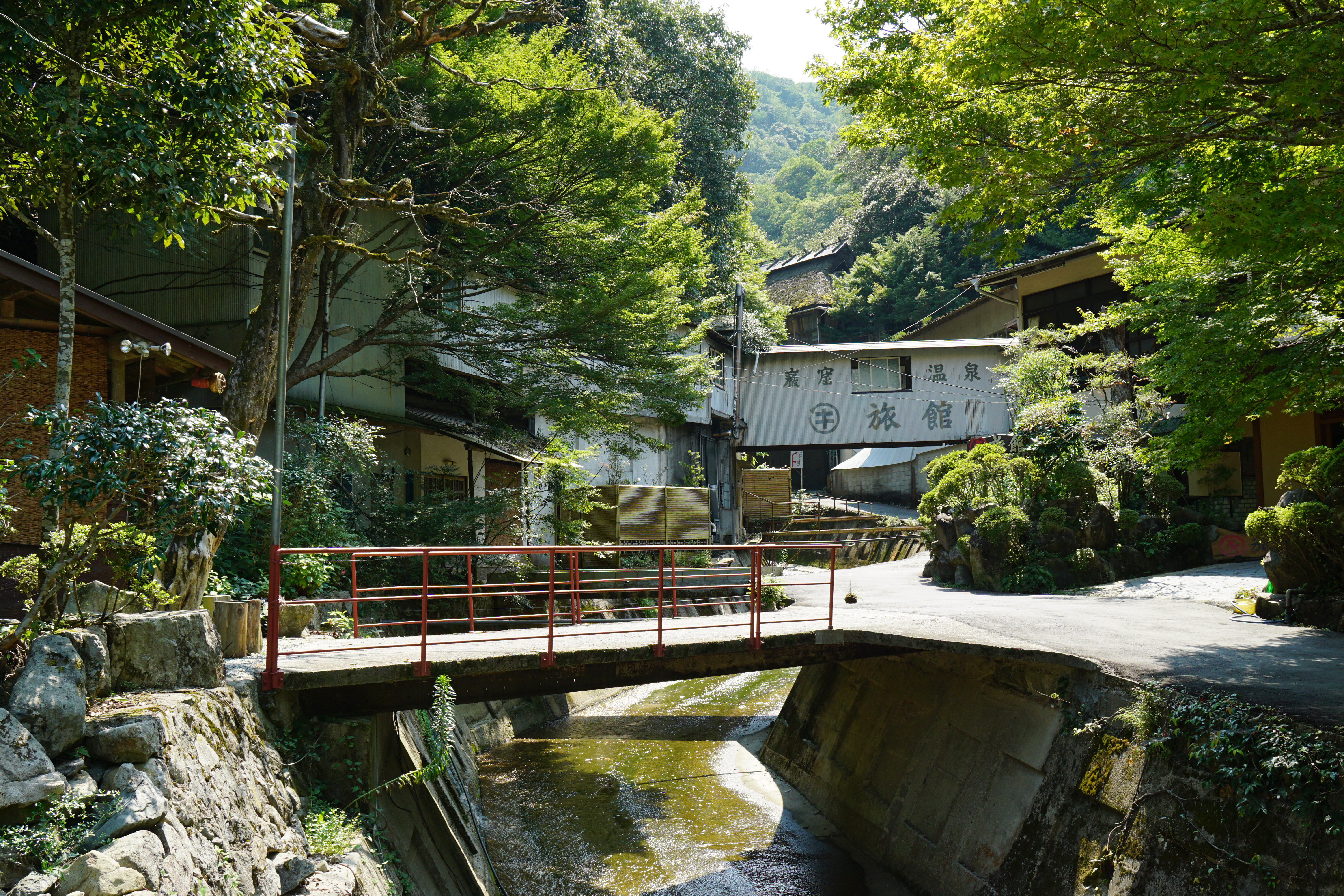 At Takedao Onsen in Nishinomiya, Hyogo prefecture, Japan